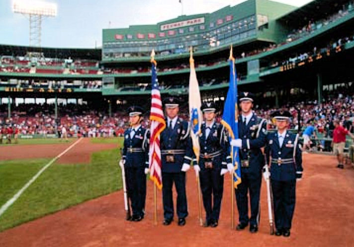 102d Intelligence Wing Honor Guard at Fenway Park